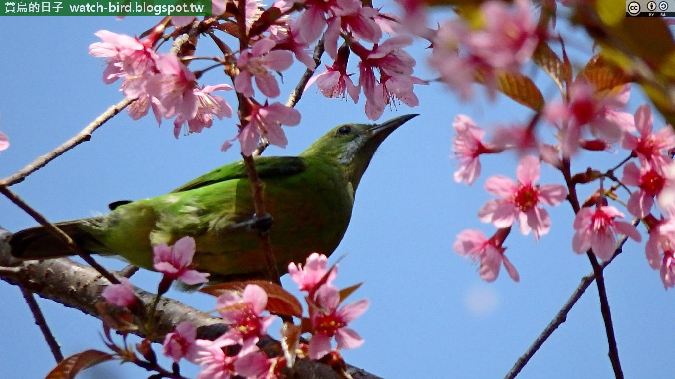 Orange-bellied Leafbird.